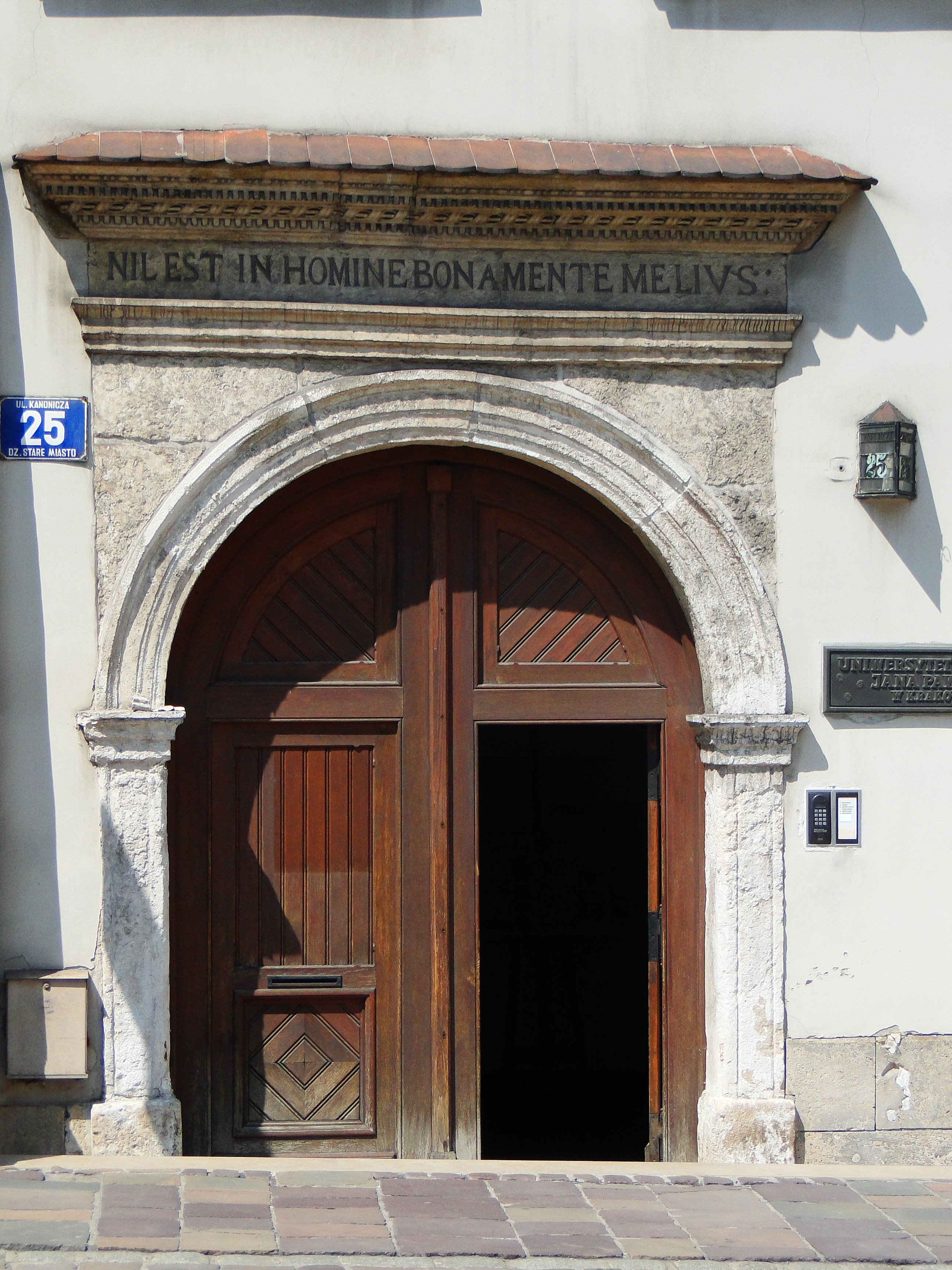 Jan Długosz House (gate)